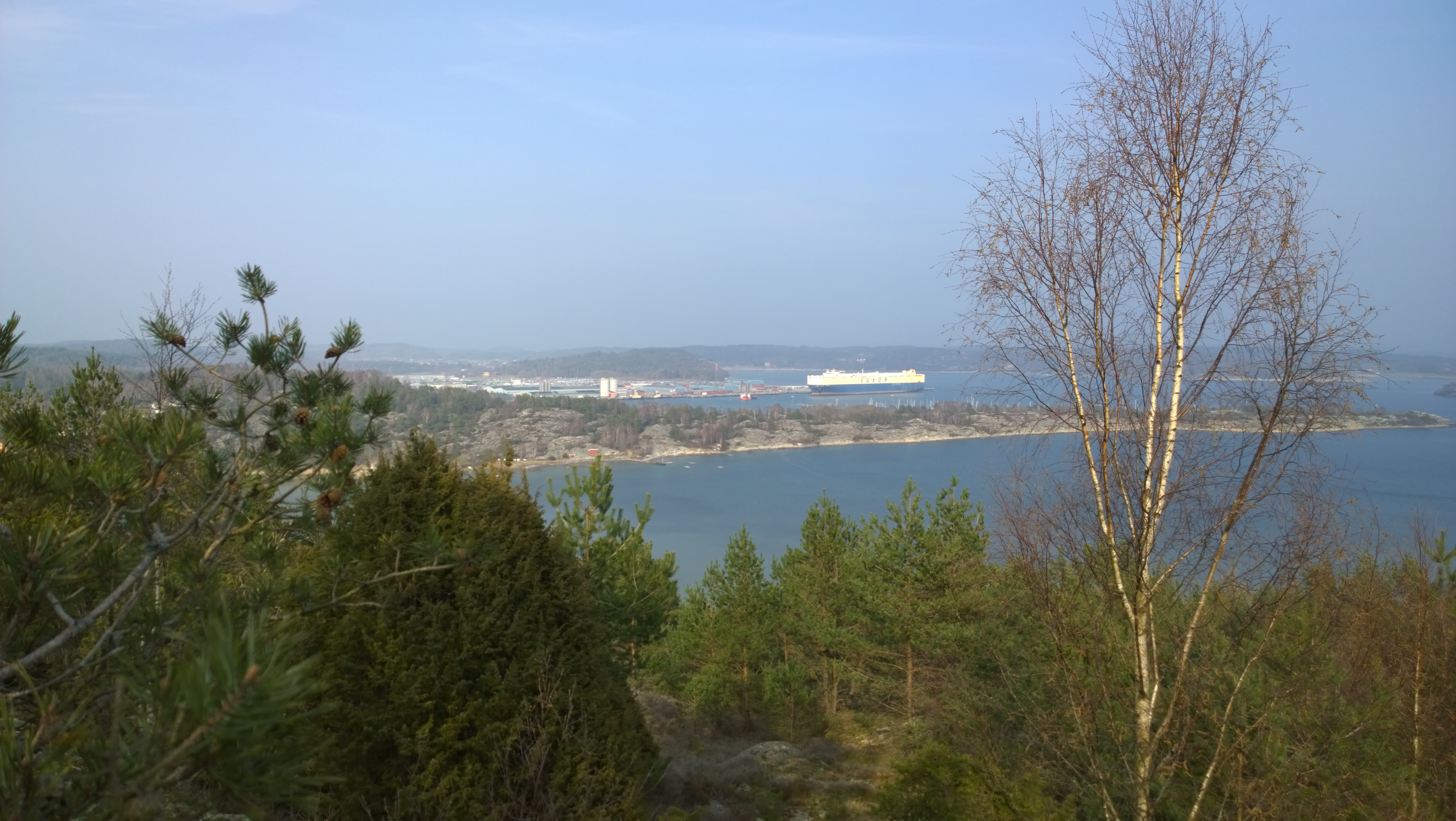 Wallhamn cargo port